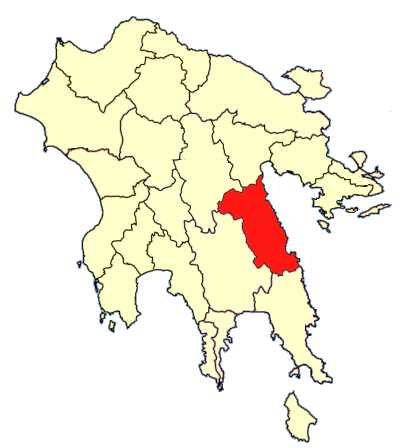 kynouria